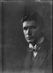 Frank Nelson Doubleday (1916)